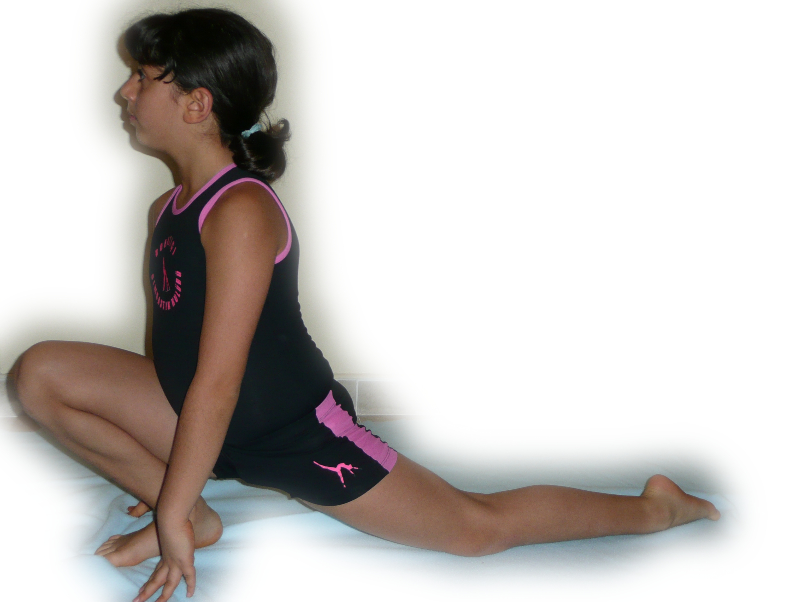 Stretching